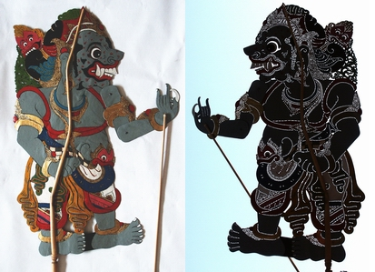 Bujar, wayang kulit figure from the epos Serat Menak Sasak